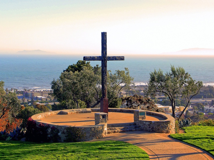 The Cross at Grant Park in Ventura, CA